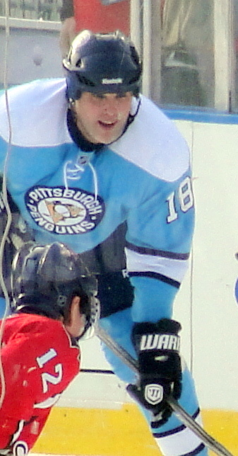 François Leroux at the 2010 Alumni Game featuring former members of the Pittsburgh Penguins and Washington Capitals at Heinz Field in Pittsburgh, PA. December 31, 2010.